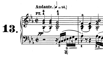 Incipit from the Piano Sonata No. 13 (Beethoven) Op. 27, No. 1. in E-flat major (Quasi una fantasia).